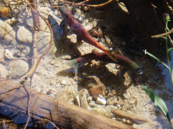 Spawning Kokanee salmon (Oncorhynchus nerka) in Sawtooth Range, Idaho